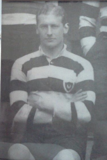 Rugby Player Jules Malfroy